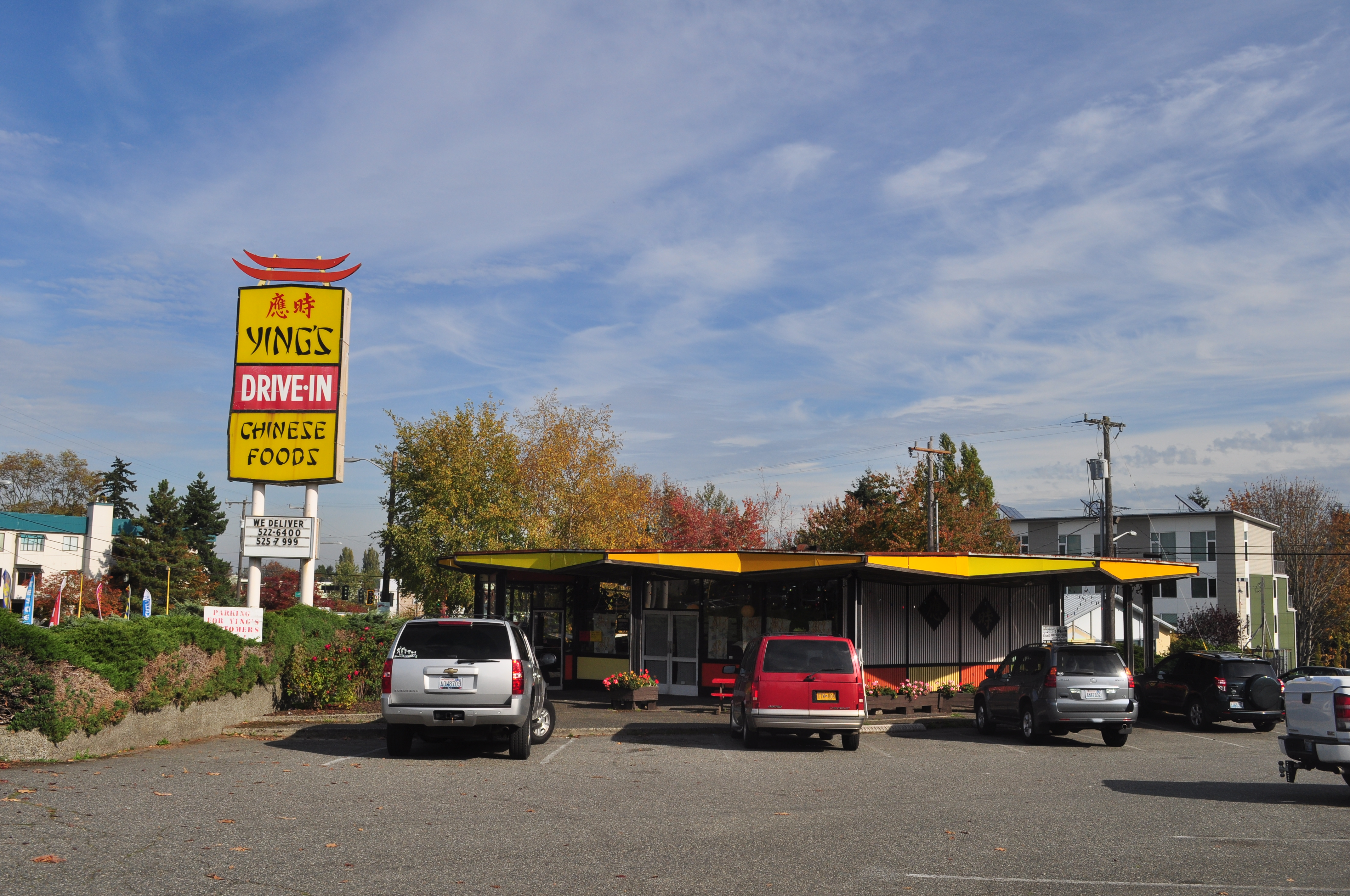 Ying's Drive-in at the corner of Lake City Way NE and NE 85th Street, Seattle, Washington, in what would variously be considered Lake City, Meadowbrook, or Wedgwood (definitely on the edges of each, and there are no well-defined borders).